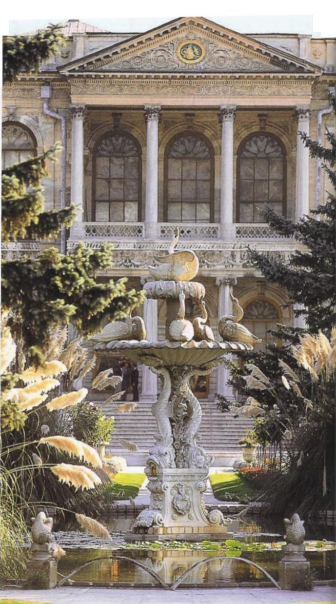 Fountain inside the garden.